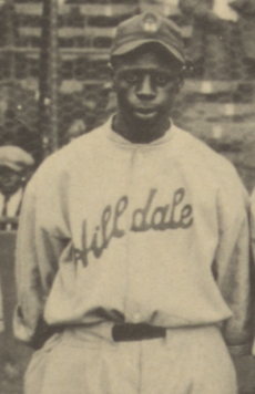 Scrip Lee at the 1924 Colored World Series. LOC states here that there are no restrictions on use of this image, therefore it is PD. This file has been extracted from another file: 1924 Negro League World Series.jpg }